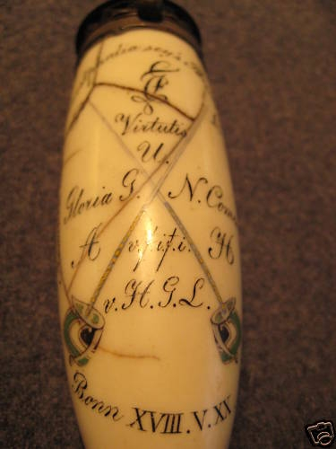 Picture of ancient pipe documenting the foundation of student fraternity Guestphalia Bonn